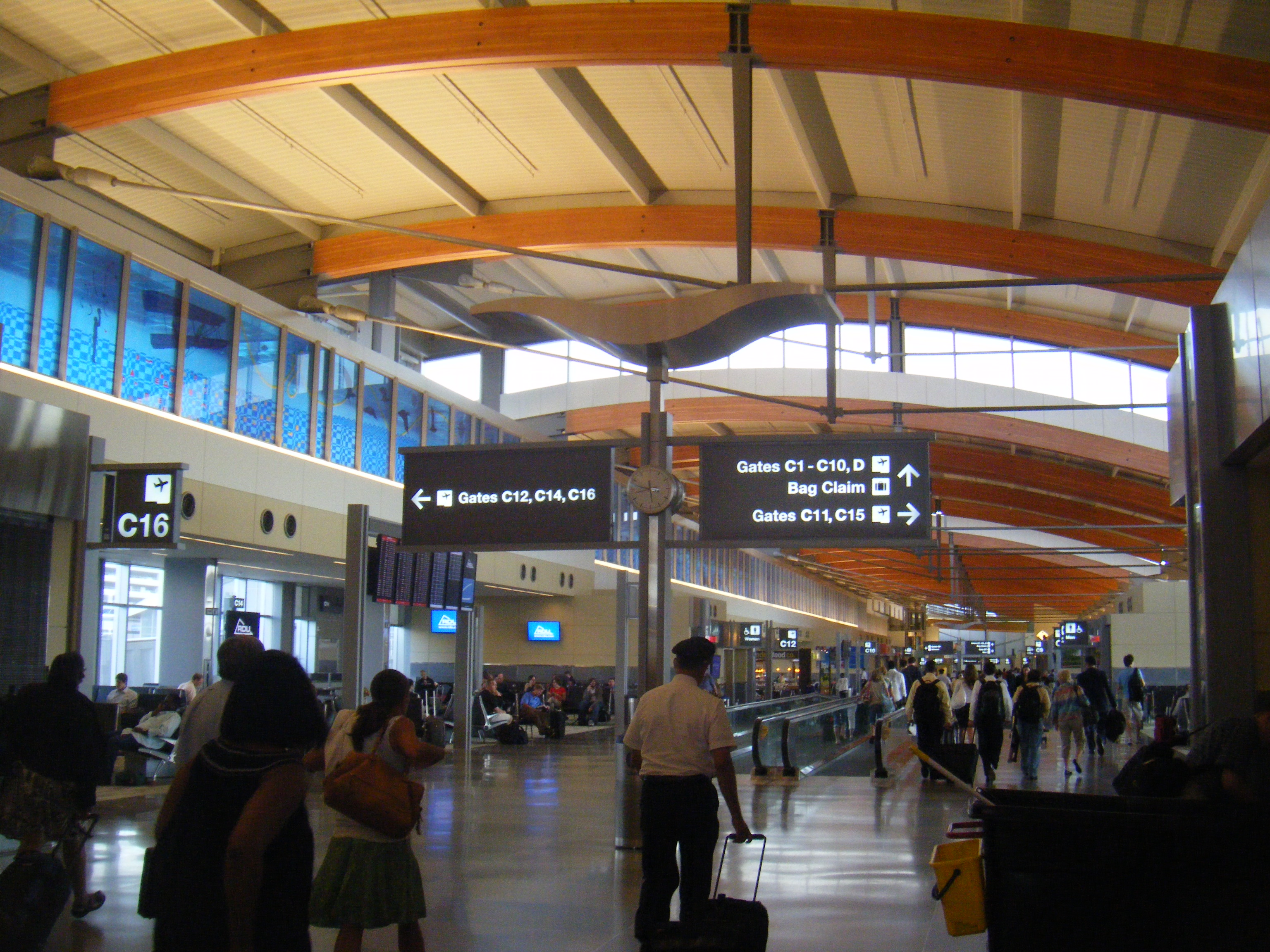 From inside the terminal